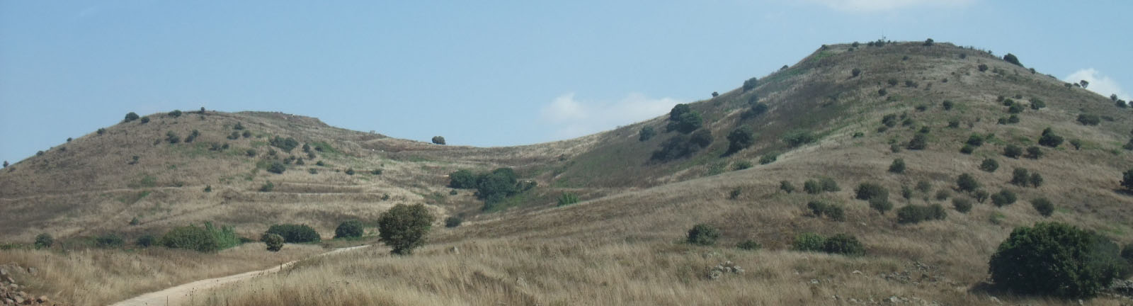 Shifon Mt.